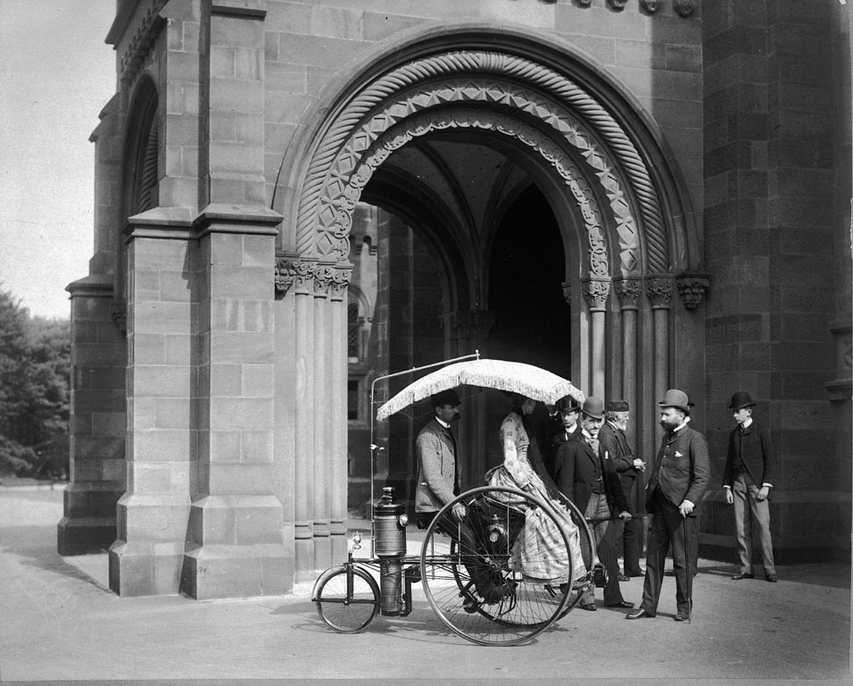 Lucius Copeland "Phaeton Moto-Cycle" steam tricycle at North entrance to Smithsonian Institution Building. Lucius D. Copeland is the driver. Frances Benjamin Johnston is the passenger. Patent attorney B. C. Poole and an associate, and Copeland's partner in the Northrop Manufacturing Co., Sandford Northrop. On the right are E. H. Hawley , W. H. Travis and J. Elfreth Watkins, all of the Smithsonian.